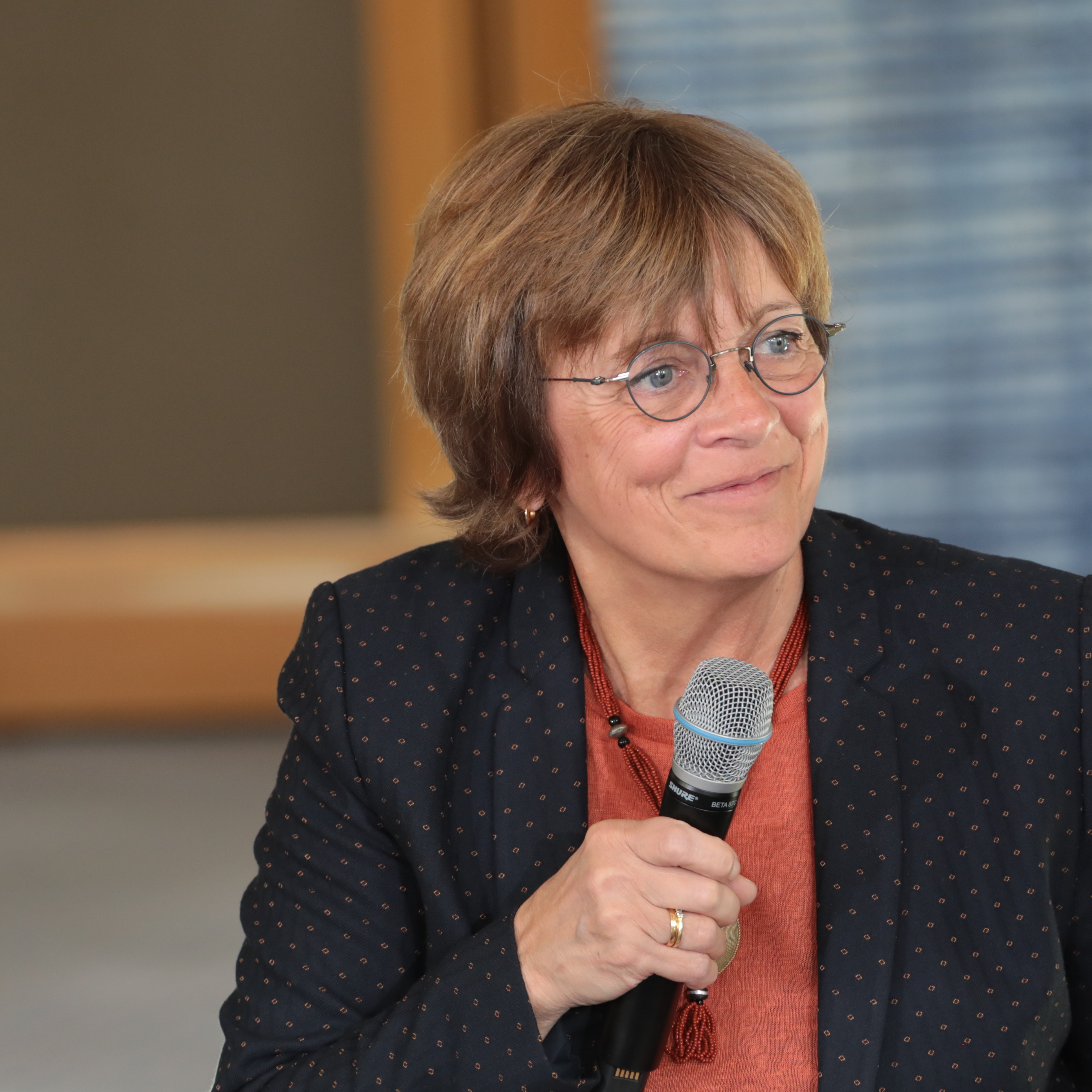 International womens day at UNCTAD and they have a fashion show